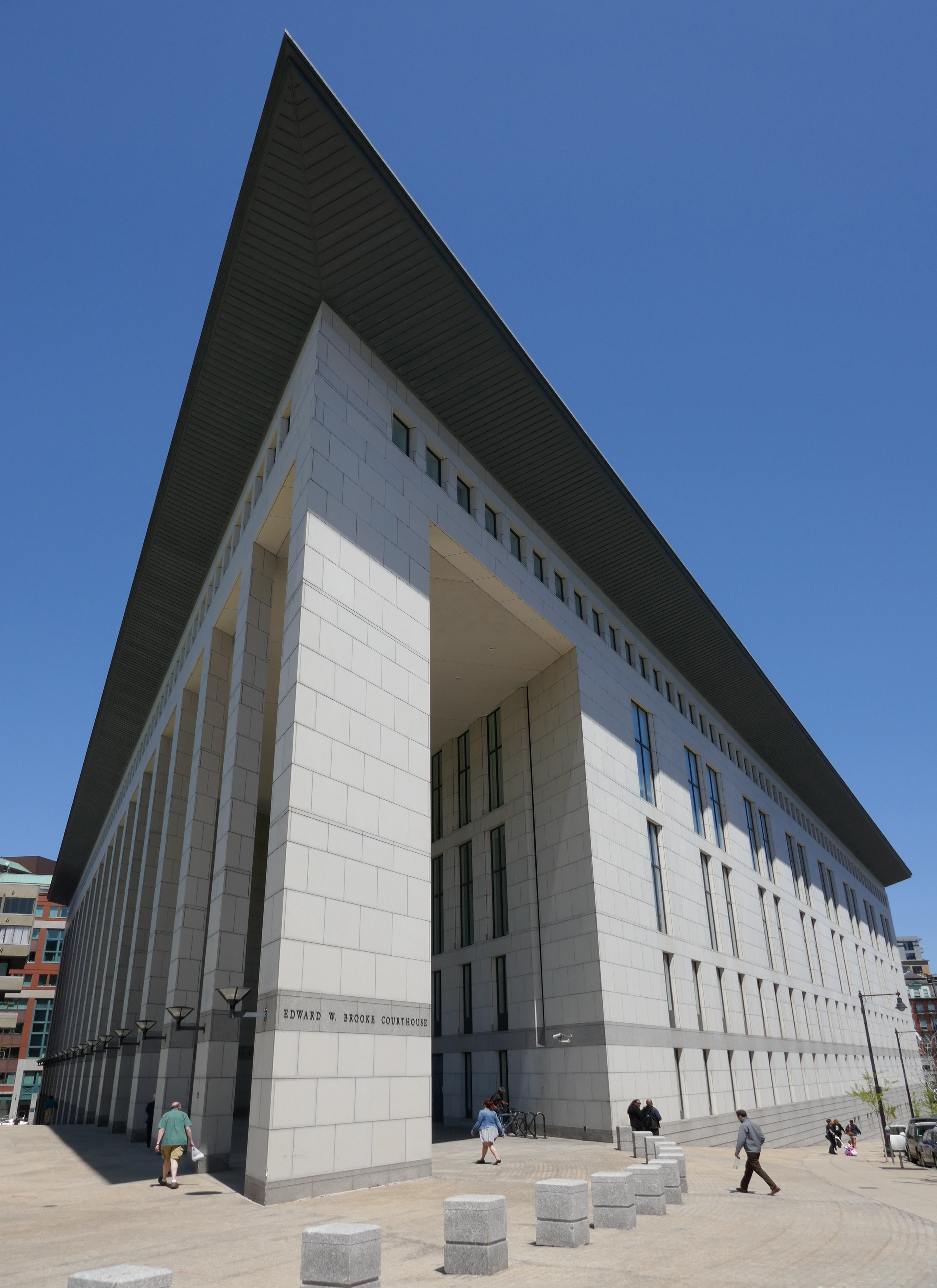 Entrance to the Edward W. Brooke Courthouse in Boston